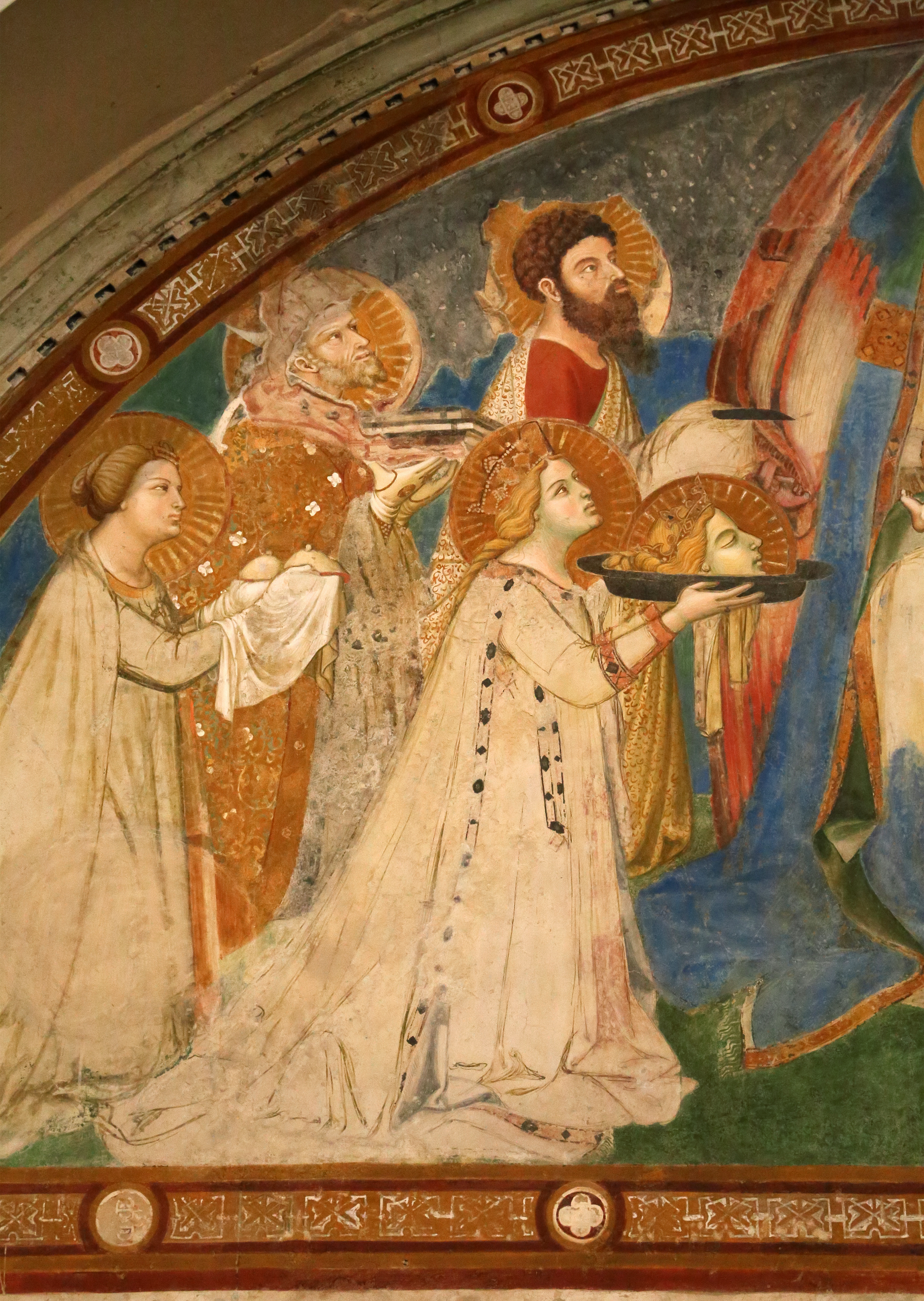 Sant'Agostino (Siena) - Interior